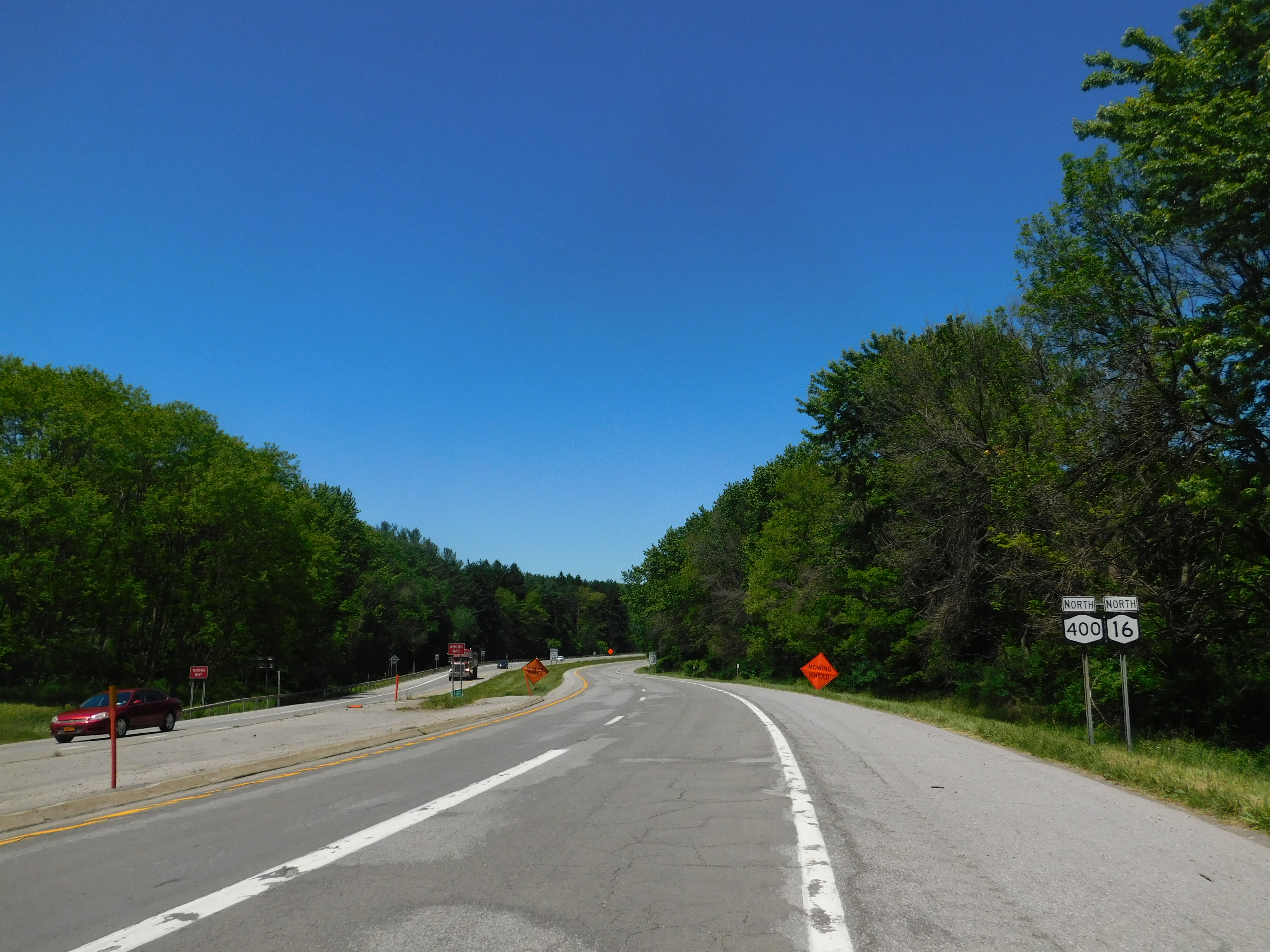 New York State Route 400 and New York State Route 16 northbound in the town of Wales, New York.